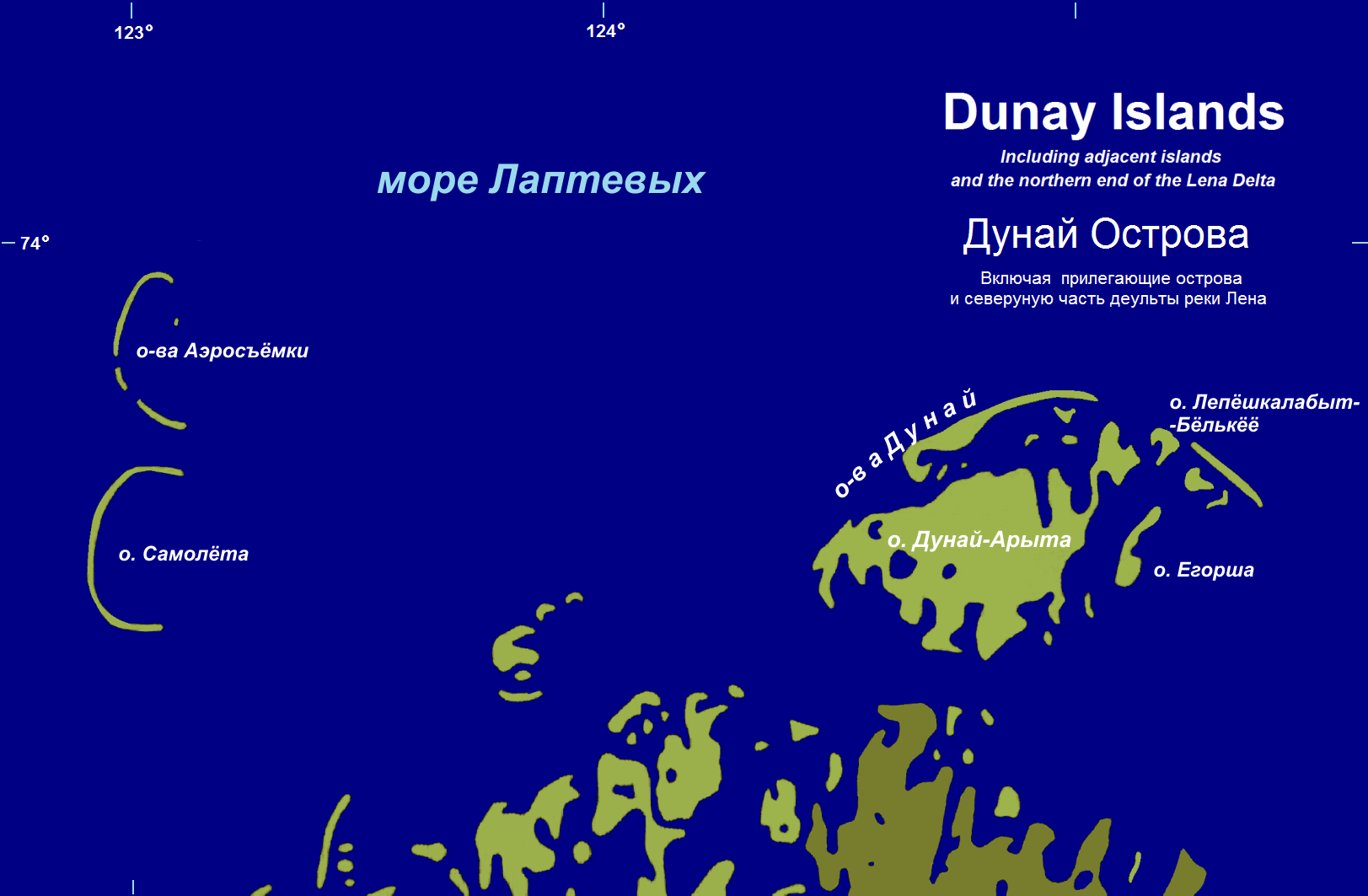 color map of island group